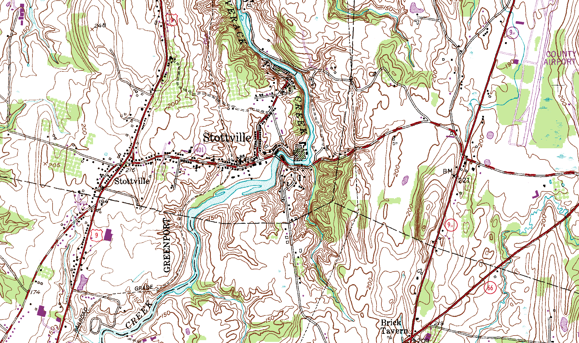 A 1:24,000 scale topographic map of Stottville, New York, created by splicing the Hudson North and Stottville quadrangles together. The map has been slightly digitally enhanced; for example, route markers were added for New York State Route 9H and New York State Route 66.